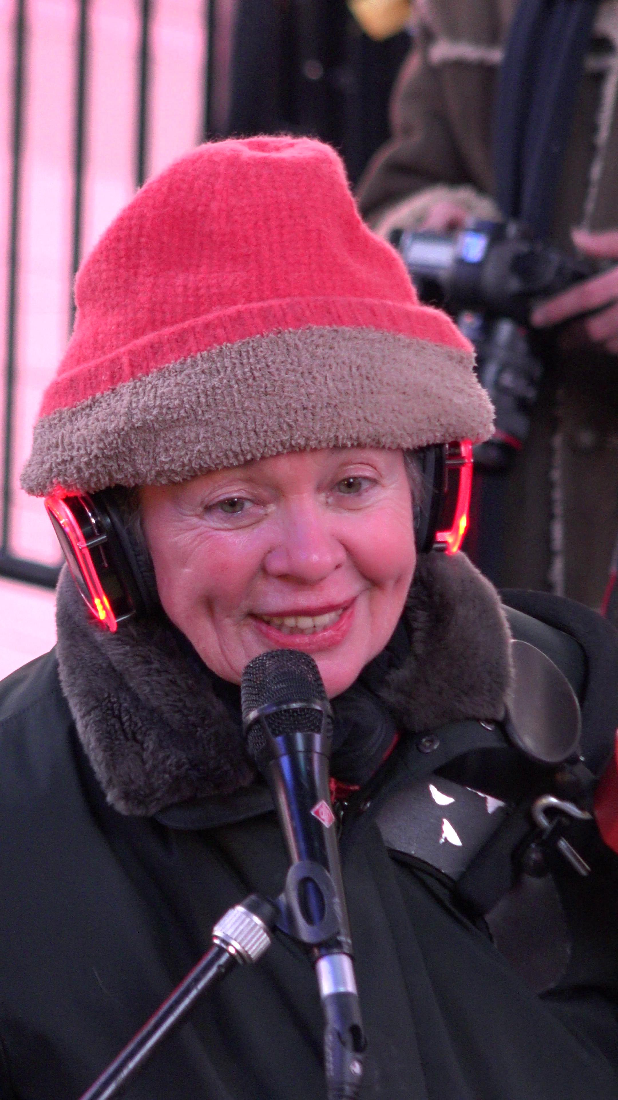 Laurie Anderson performing at her concert for dogs in Times Square